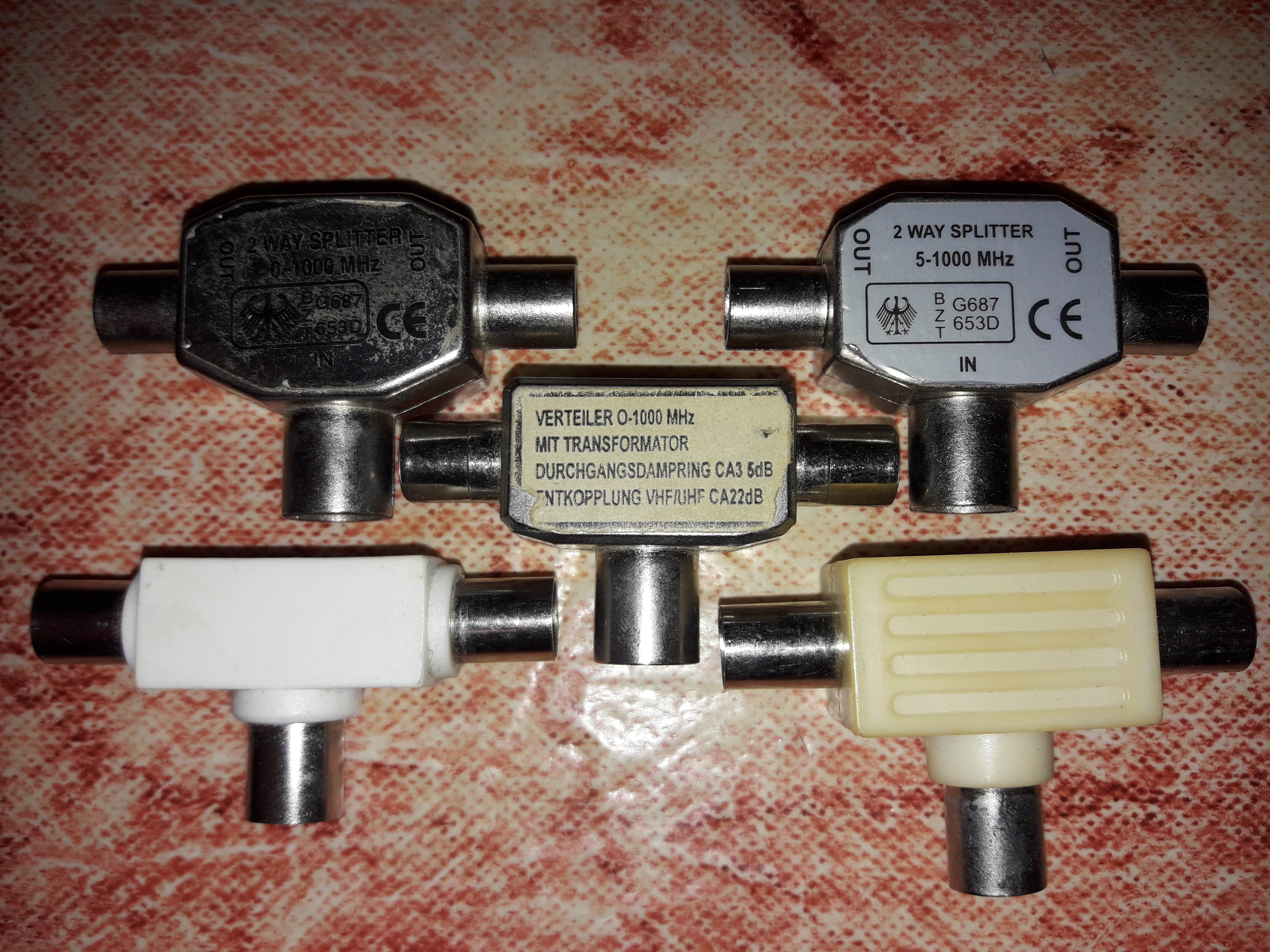 Two-way-splitters for television aerial